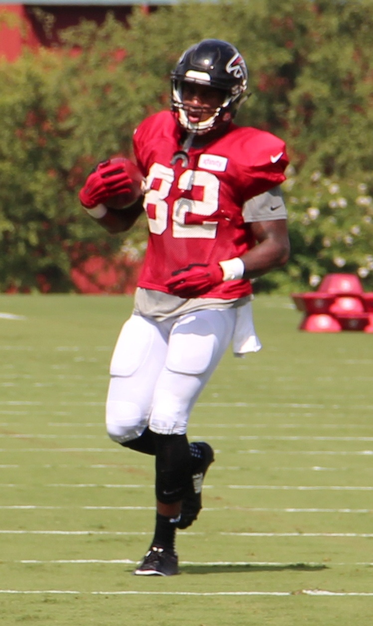 Joshua Perkins catching a pass